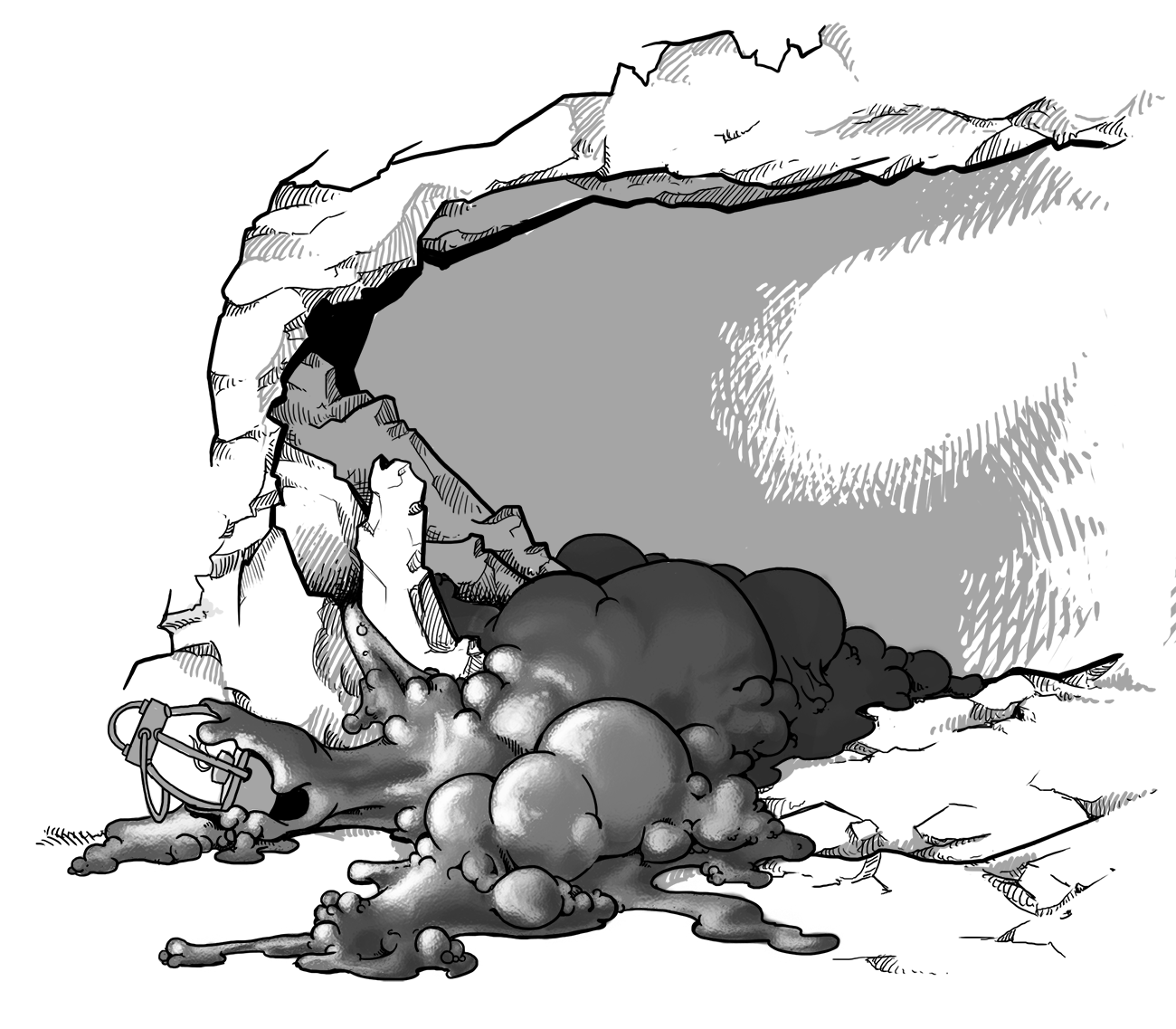 black pudding is a form of Ooze first described in Dungeons & Dragons Basic Set 1977. the image is based in the text description